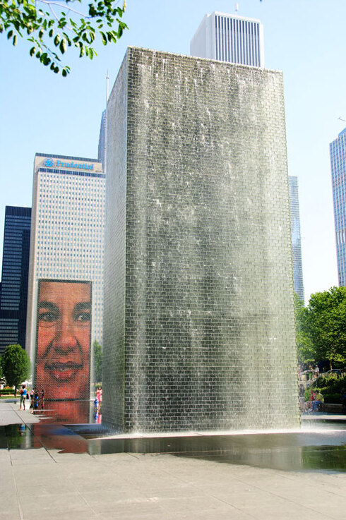 Both Crown Fountain's in Chicago's Milleneum Park.